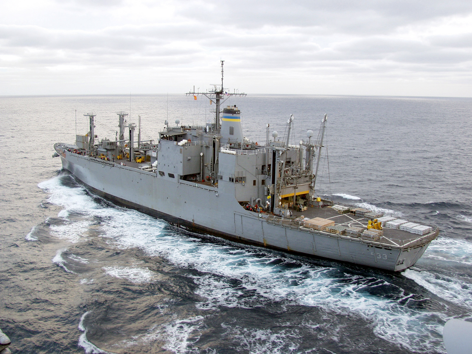 At sea with USNS Shasta (T-AE-33) Nov. 1, 2002 — The military sealift command ship Shasta steams alongside the aircraft carrier USS Carl Vinson (CVN-70) to conduct an early morning underway replenishment. Carl Vinson is currently operating off the southern coast of California conducting training in preparation for their next regularly scheduled deployment.